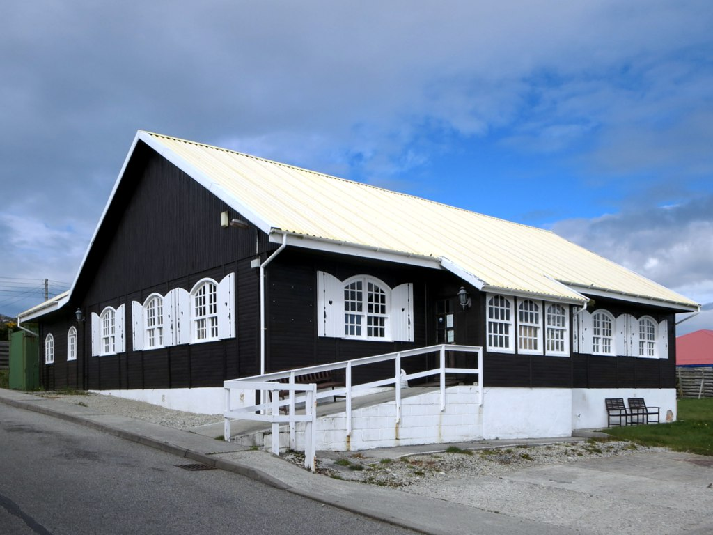 Britannia House (1981) in Stanley is the former home of the Falkland Islands Museum. In 2014 the museum moved to new premises in the historic Dockyard on the waterfront.